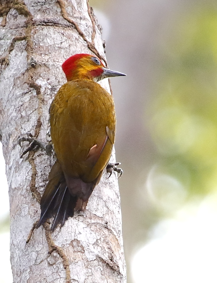 White-throated woodpecker (male) at Carajás National Forest - Pará - Brazil